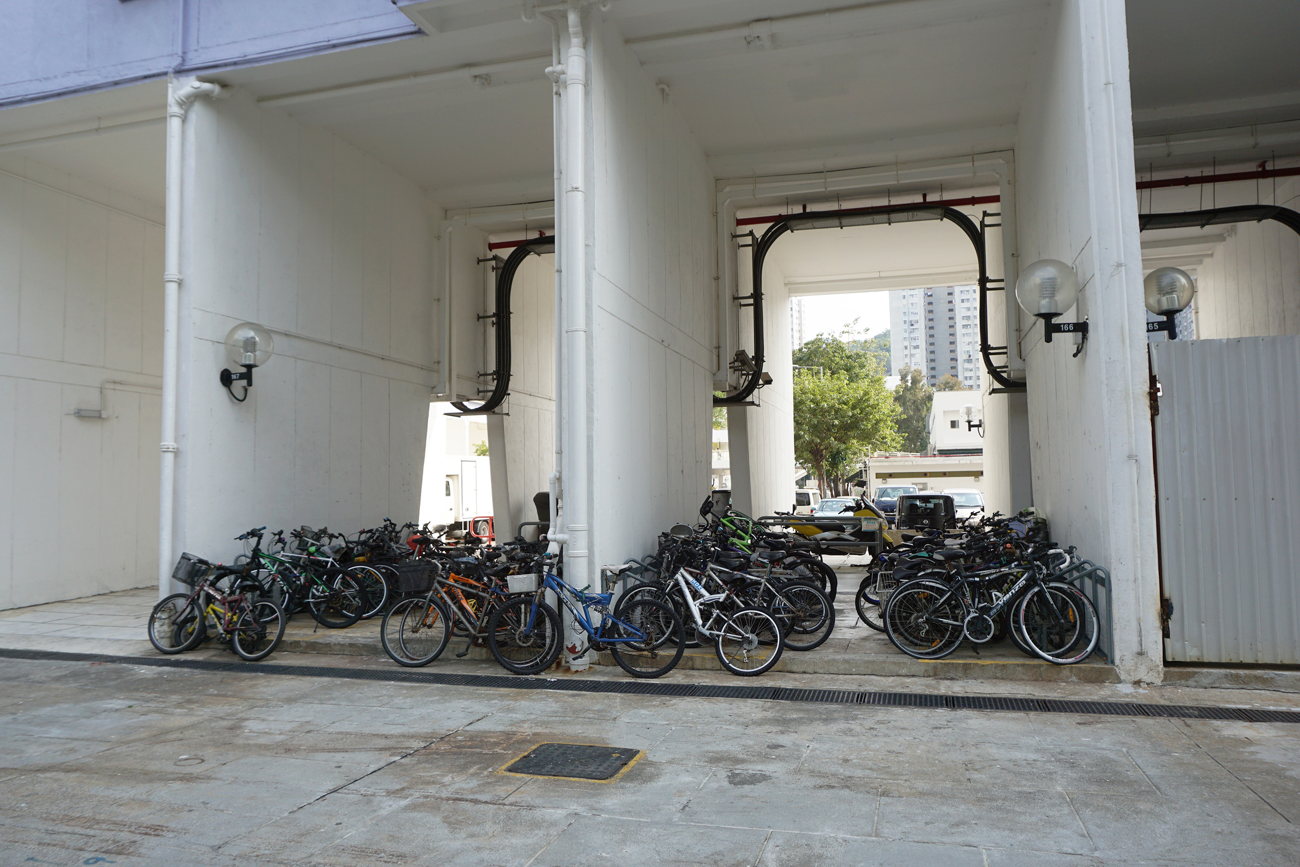 Jat Min Chuen in Sha Tin Wai, Hong Kong.